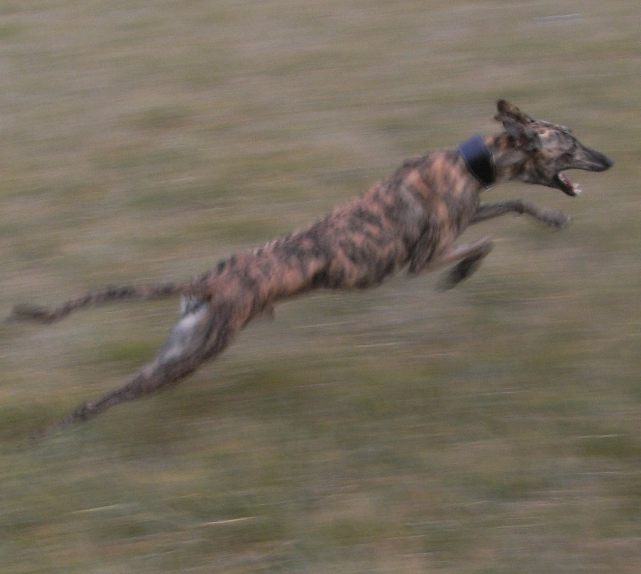 Galgo Español (Spanish Galgo) or Spanish Greyhound